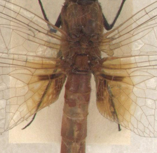 L-spot Basker dragonfly (Aethriamanta nymphaeae) crop highlighting the "L" pattern at the base of the hindwings.